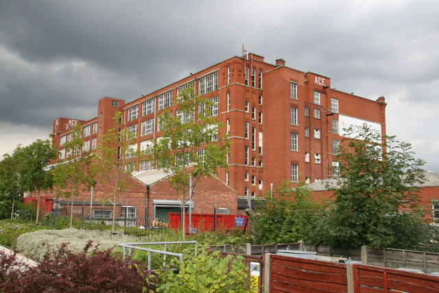 Ace Mill, Chadderton. I like the lighting but that's it. Further descriptive text with the alternative view.